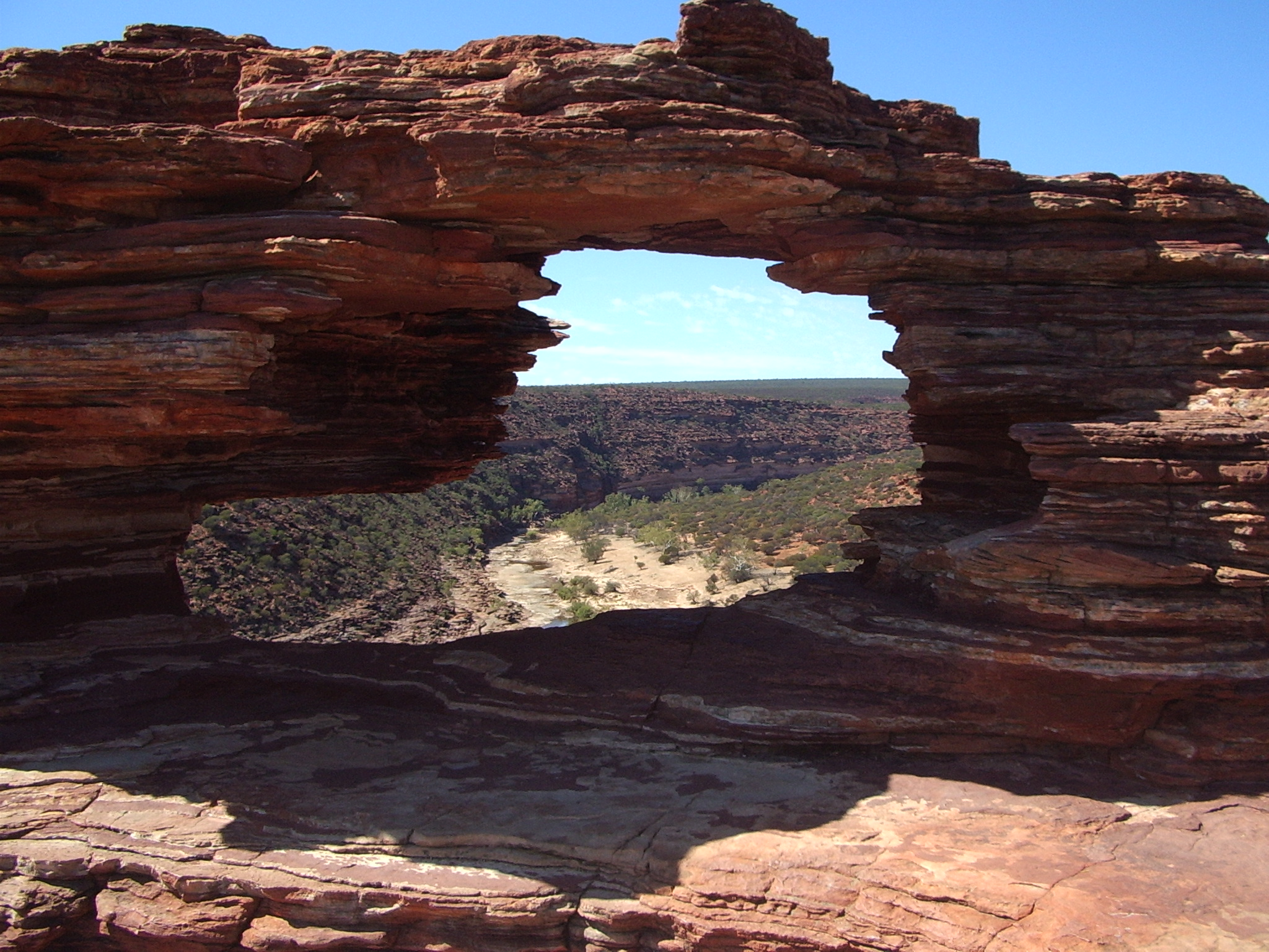 Murchison river from natures window